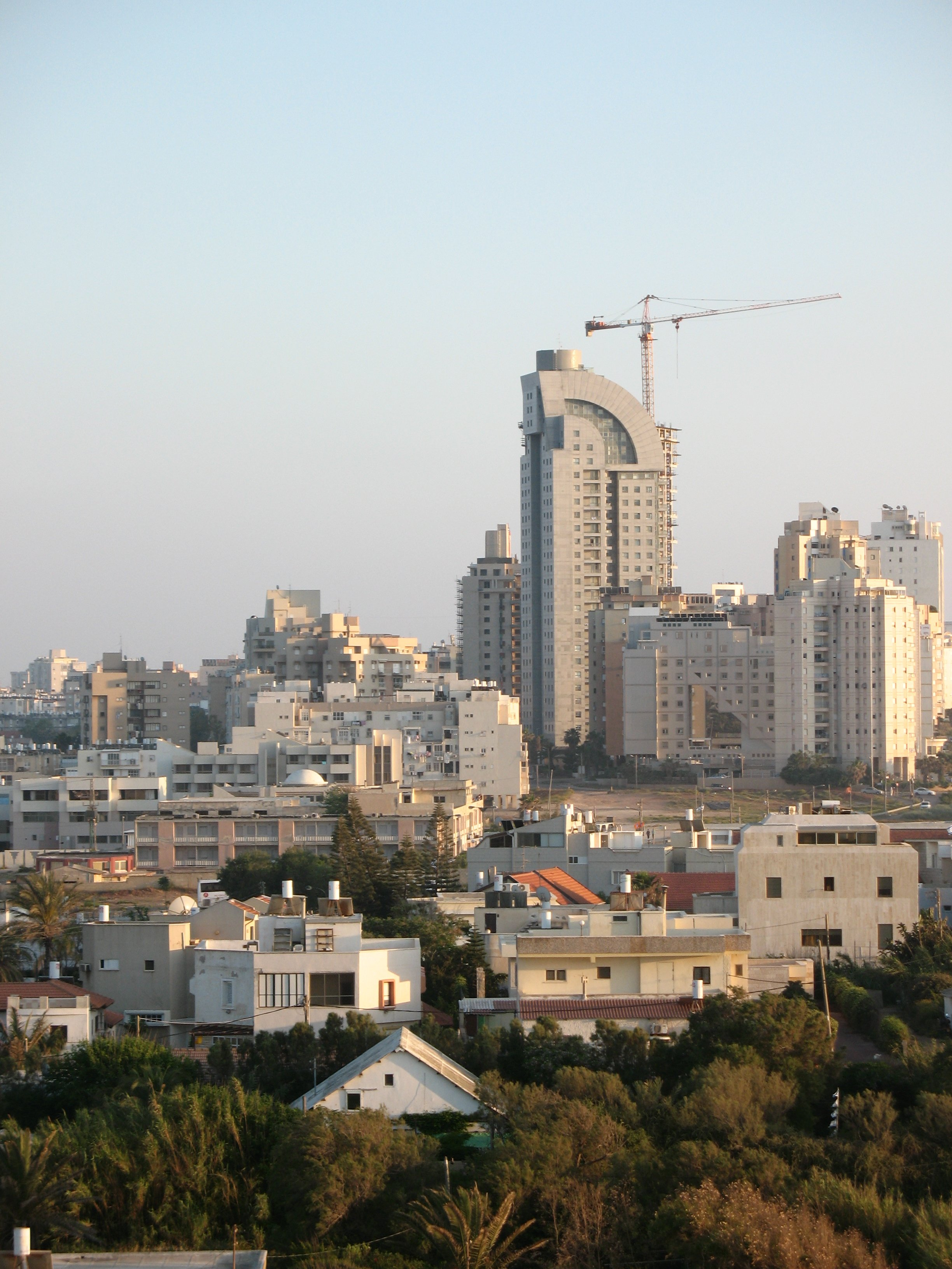 Netanya. Left part of this composed image.